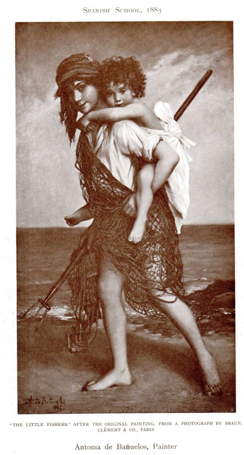 1905 print after page of Women painters of the world, from the time of Caterina Vigri, 1413-1463, to Rosa Bonheur and the present day, by Walter Shaw Sparrow, The Art and Life Library, Hodder & Stoughton, 27 Paternoster Row, London